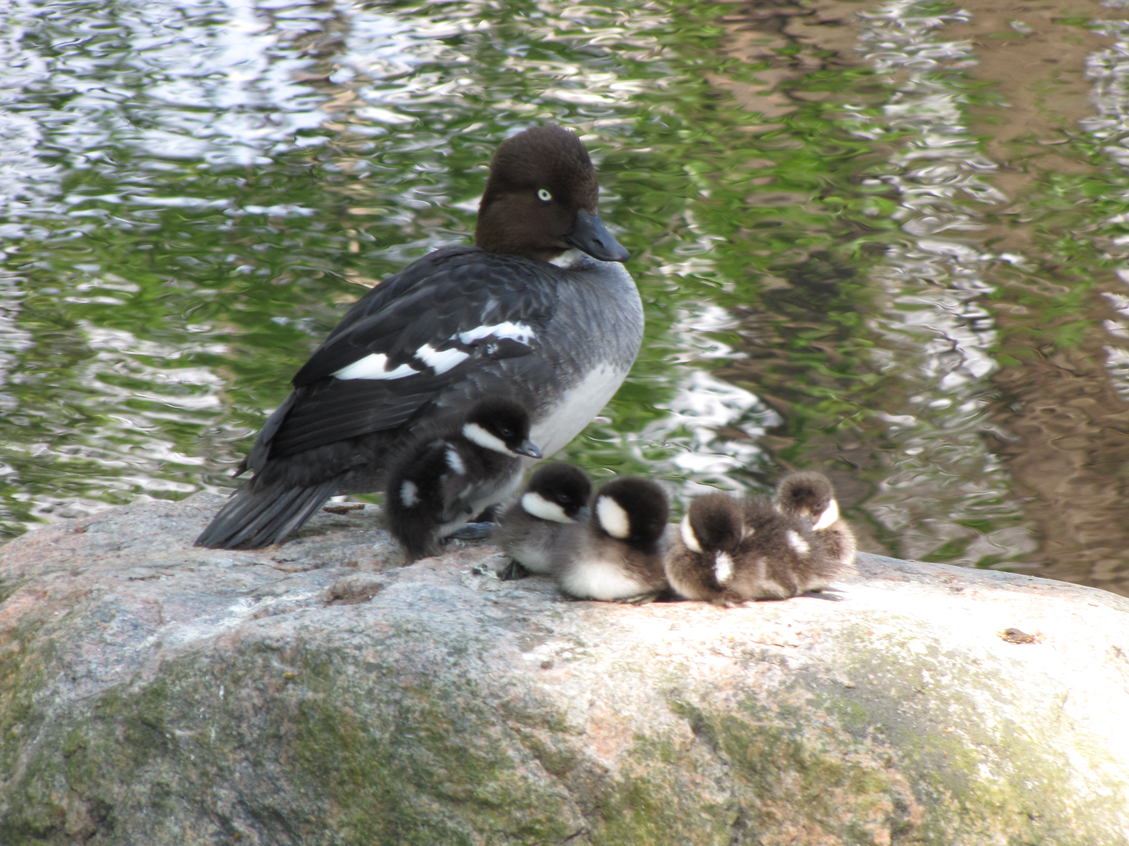 Bucephala clangula (Common Goldeneye) female with chicks in Seurasaari.